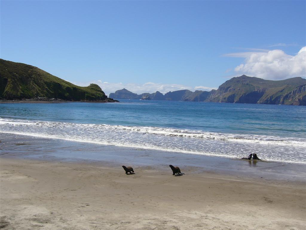 Campbell Island, SW Bay - looking North.